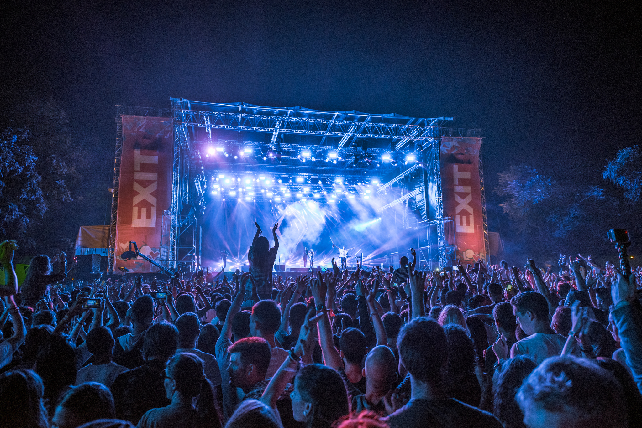 Audience, Main Stage, EXIT Festival 2015.